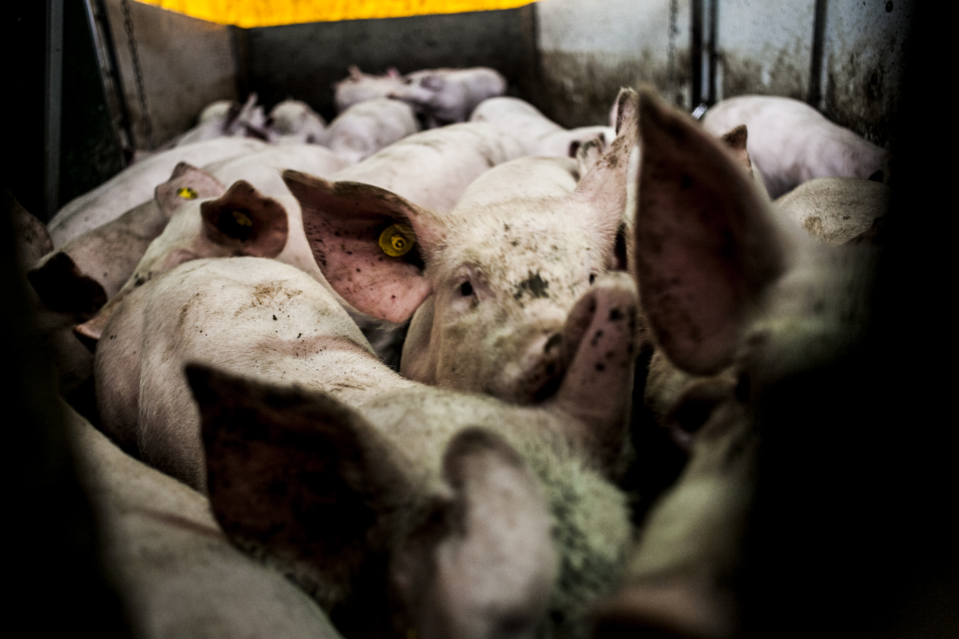 Swine farm in Israel 2